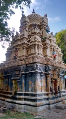 karukkudisargunalingesvarartemple கருக்குடி சற்குணலிங்கேஸ்வரர் கோயில்